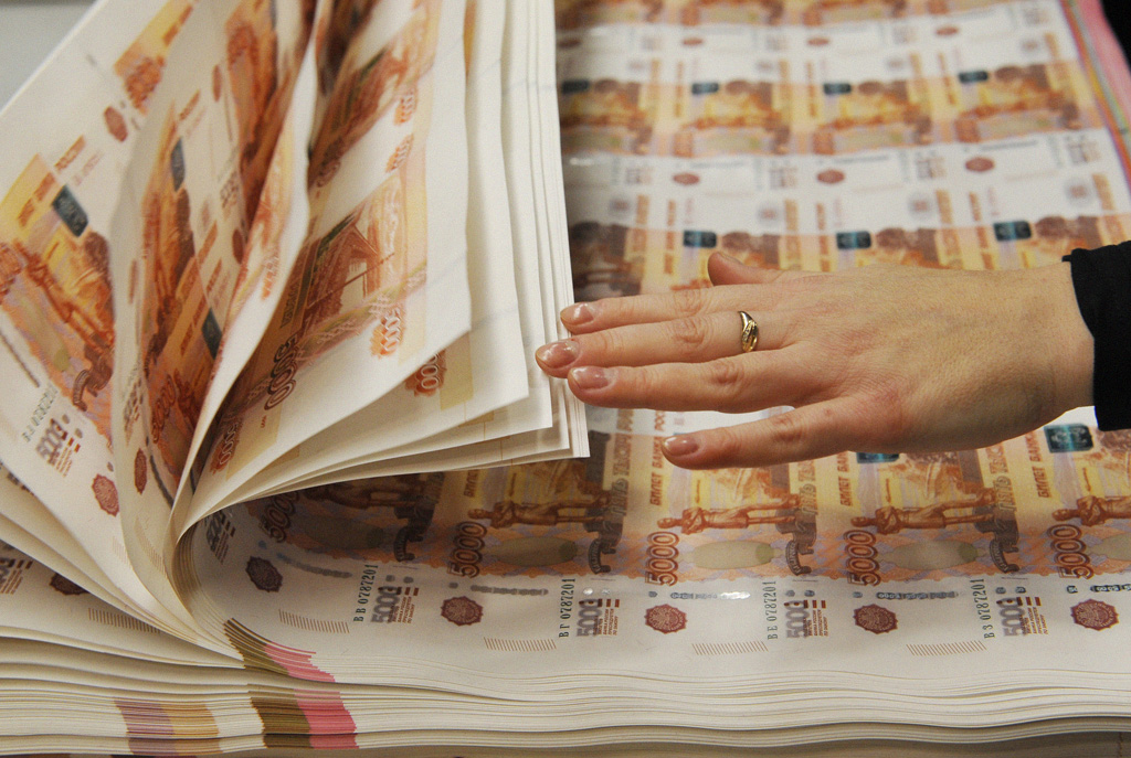 “Printing banknotes at Goznak factory in Perm”. Checking prints before their delivery to the Perm Goznak factory's facility of cutting and packaging.